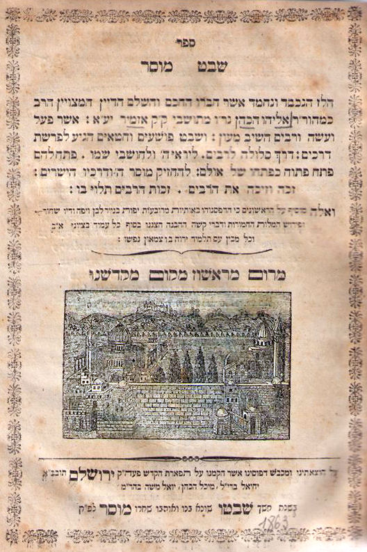 Title page of Shevet Musar by Eliyahu Hacohen, published in Jerusalem, 1863